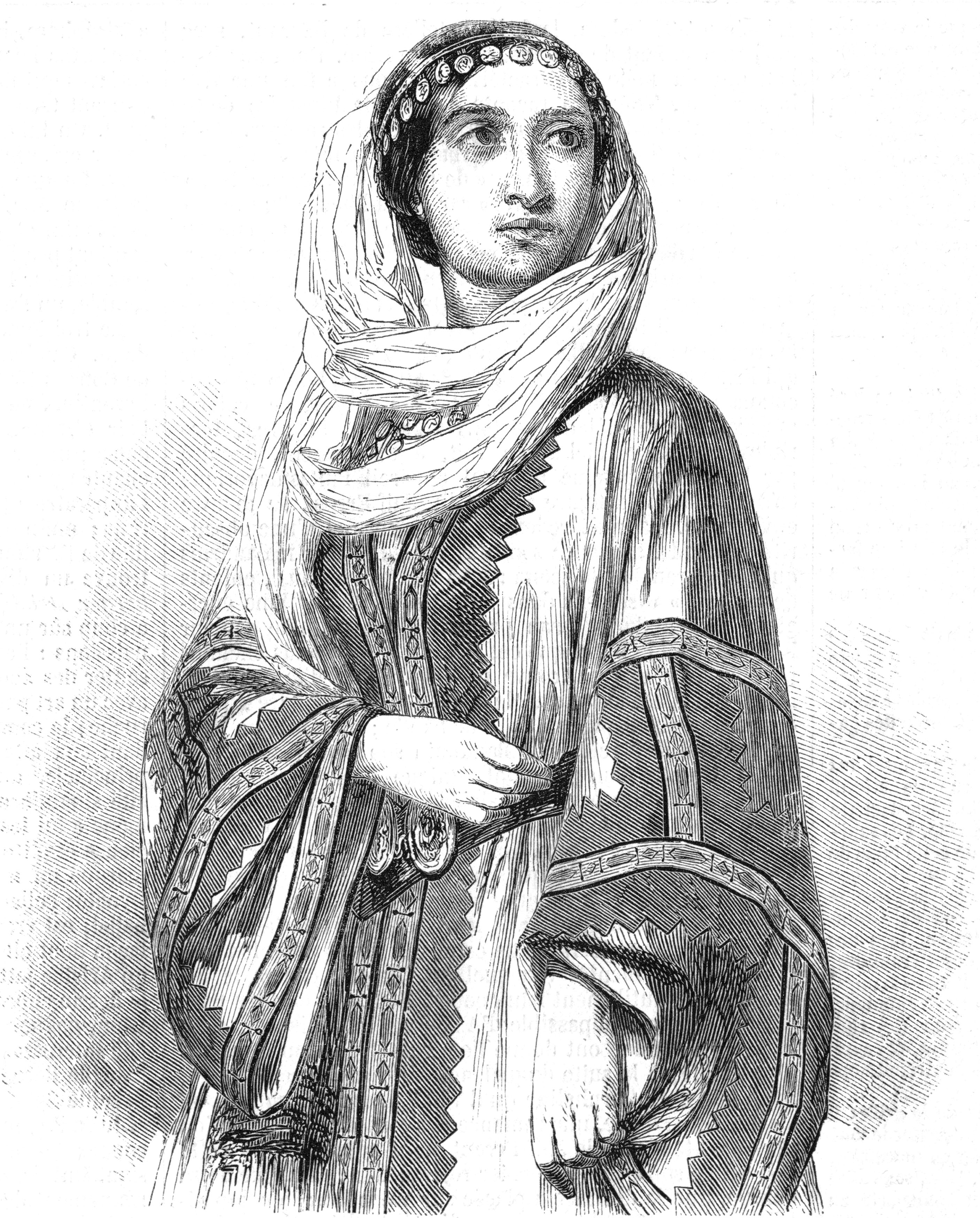 French soprano Emmy La Grua as Irène in Halévy's opera Le Juif errant, a role which she created at the Paris Opera (Salle Le Peletier) on 23 April 1852